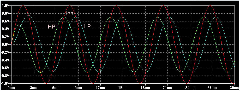 Time domain phases of one pole LPF and HPF. Norwegian texting